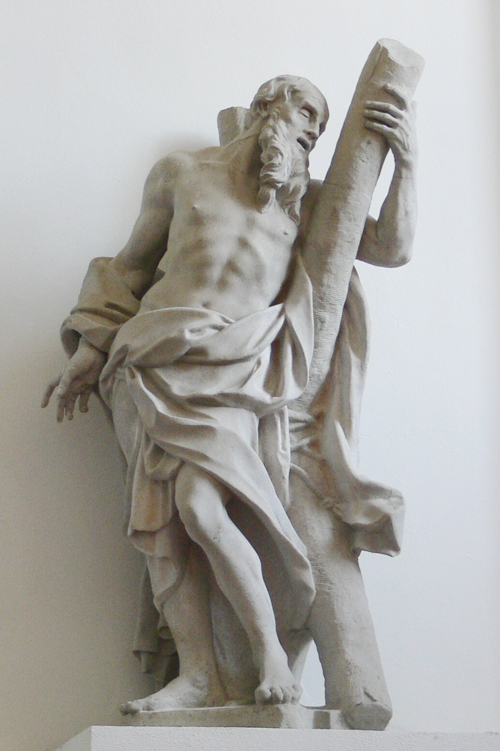 Bohemia